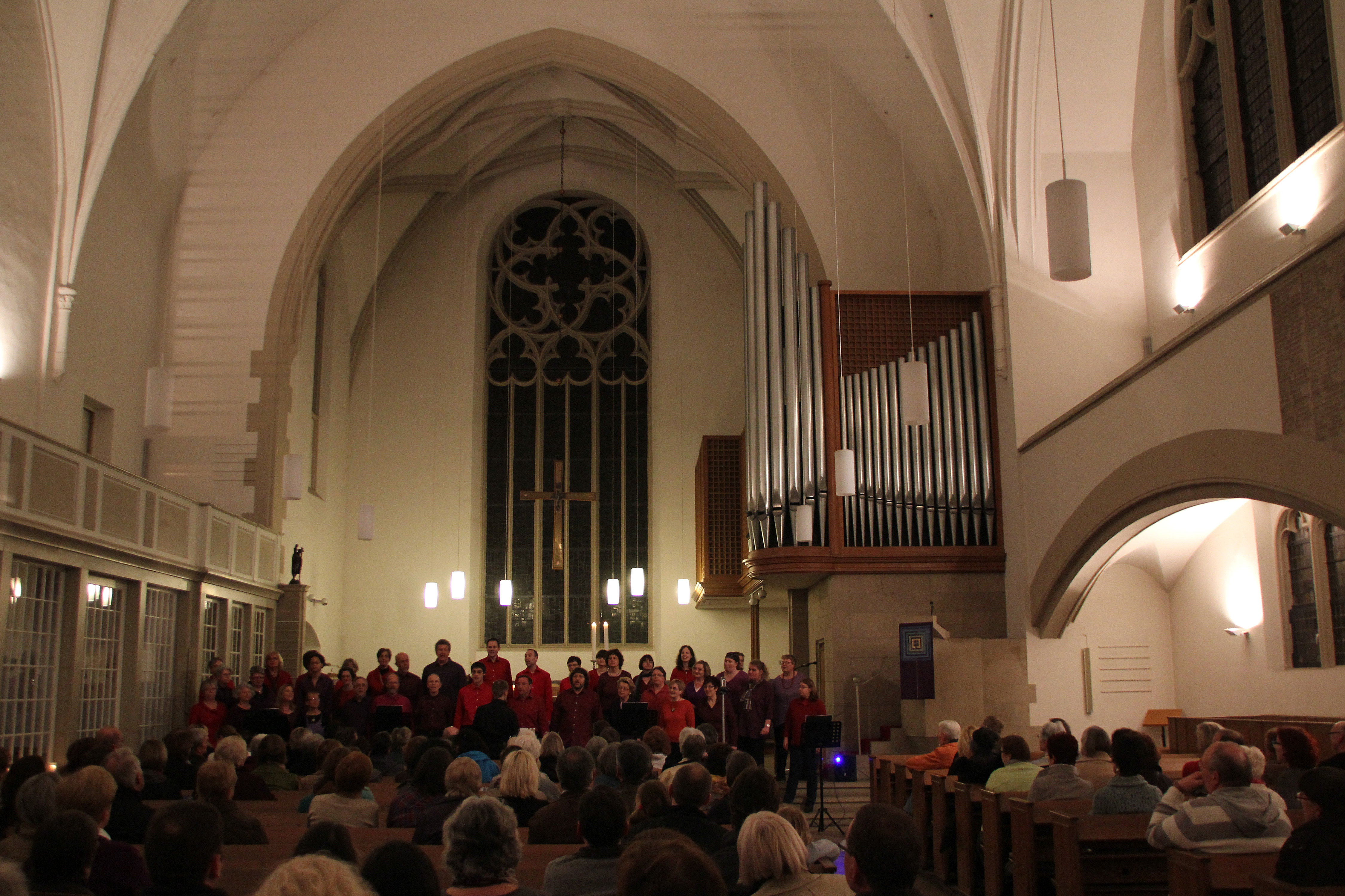 Christuskirche in Koblenz